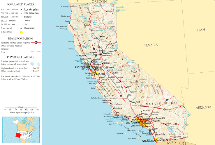 Reference Map for the U.S. state of California.